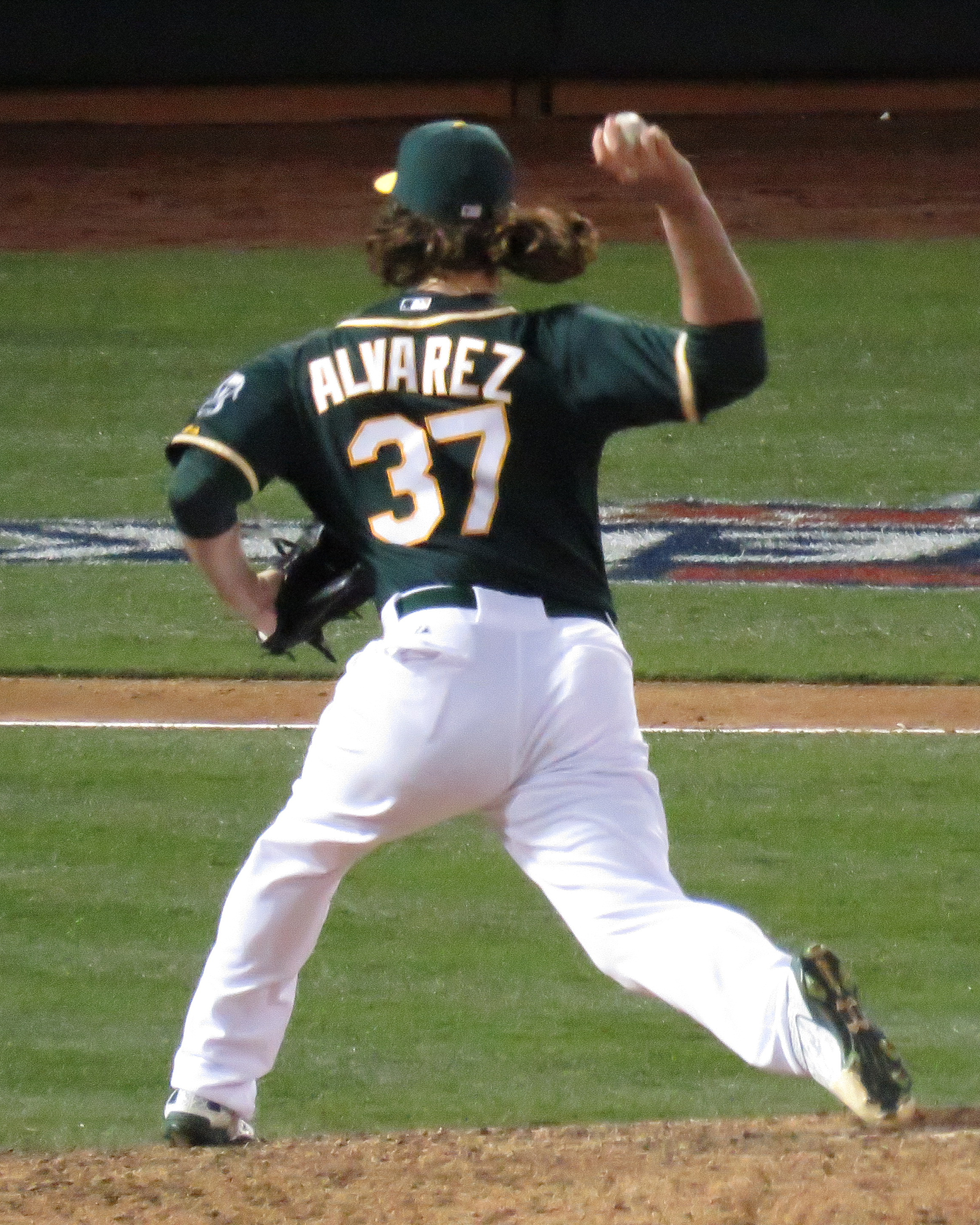 RJ Alvarez with the Oakland Athletics in 2015